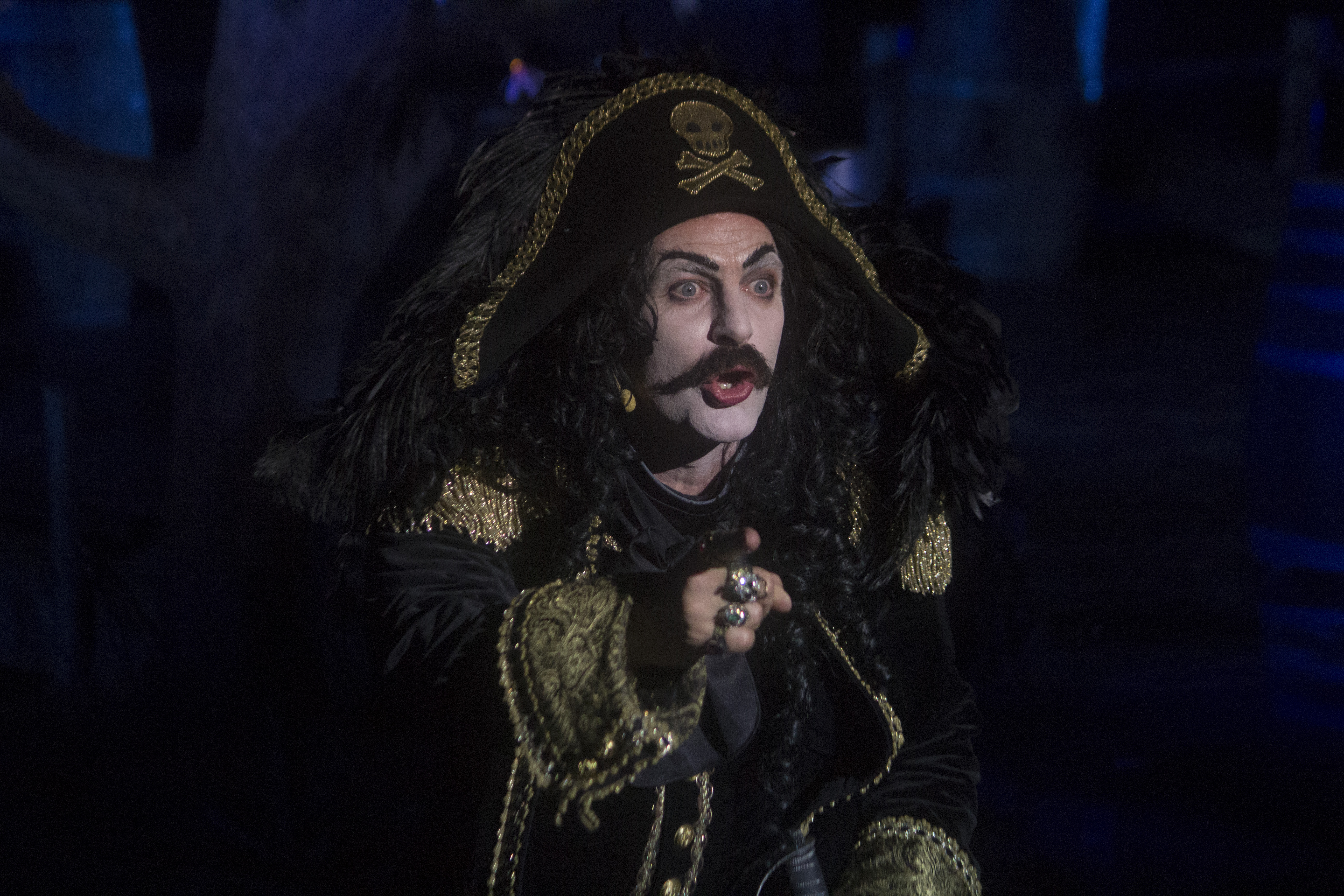 Kyrre Haugen Sydness as Kaptein Sabeltann in Kaptein Sabeltann og Den Forheksede Øya